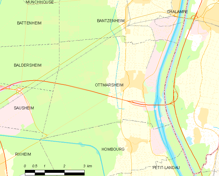 Map of French municipality